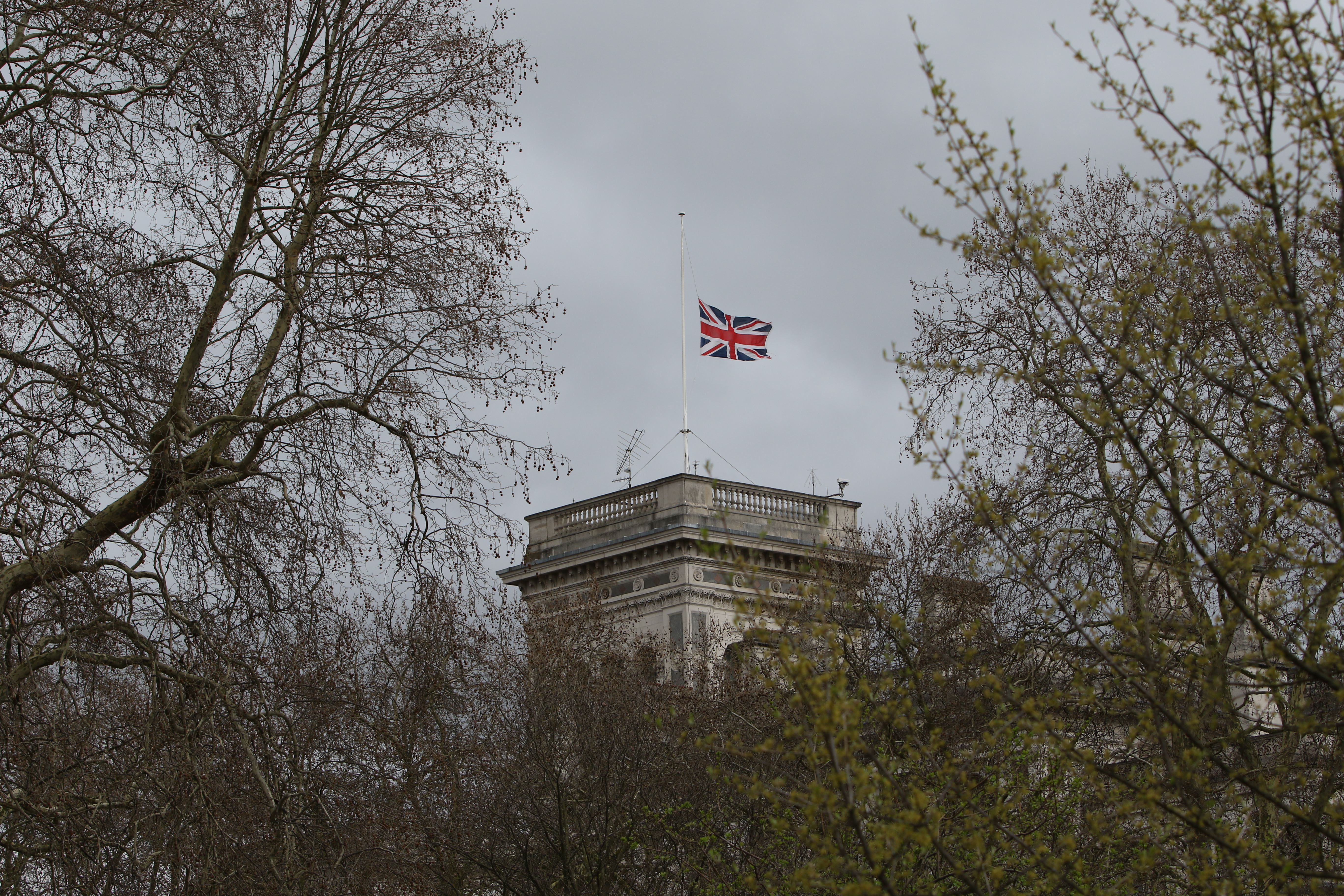 Flags on Downing Street and Foreign Office Buildings will be flown at half mast on Friday 15th March 2019 as a mark of respect to those who lost their lives and all others that were affected by the attacks in New Zealand on Friday. Flags will also be flown at half mast at overseas posts in the South Pacific.